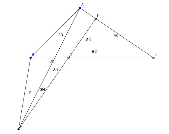 Col·locació dels triangles per la demostració.